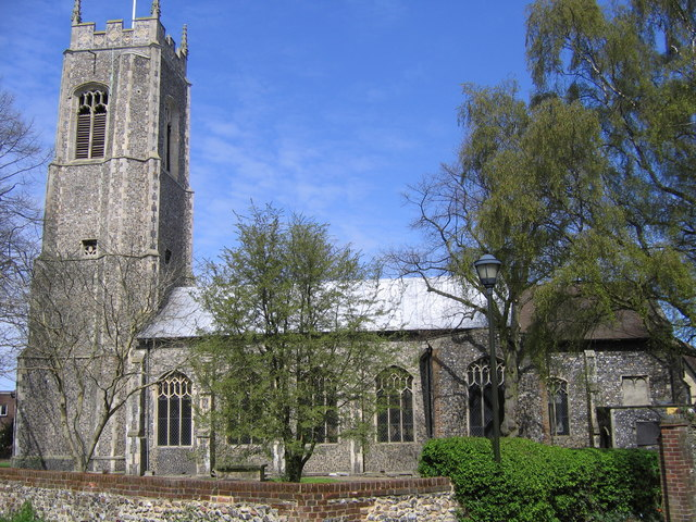 St. John the Theologian, Norwich. St. John's at the junction of Ber Street and Finkelgate in Norwich is historically known as St. John Sepulchre. It was taken over by the Orthodox church in the 1970's